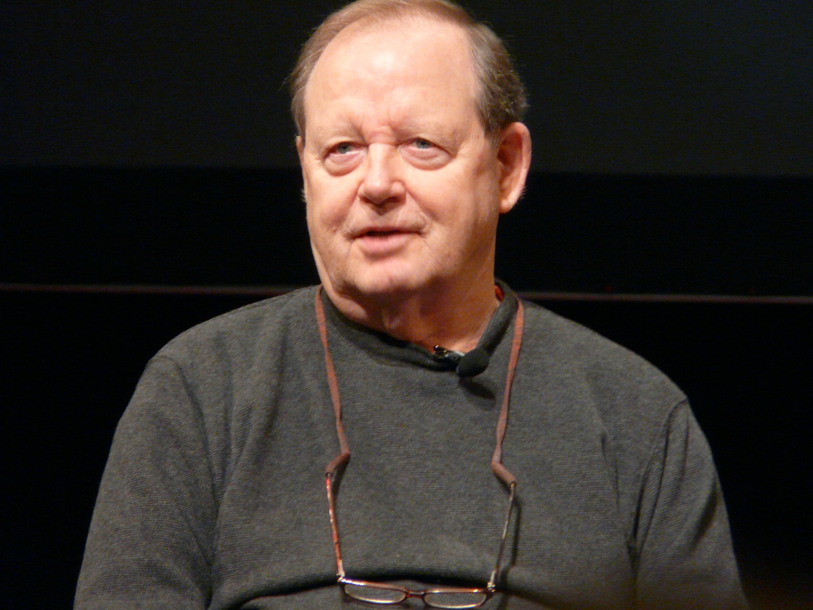 Father of the Internet Bob Taylor